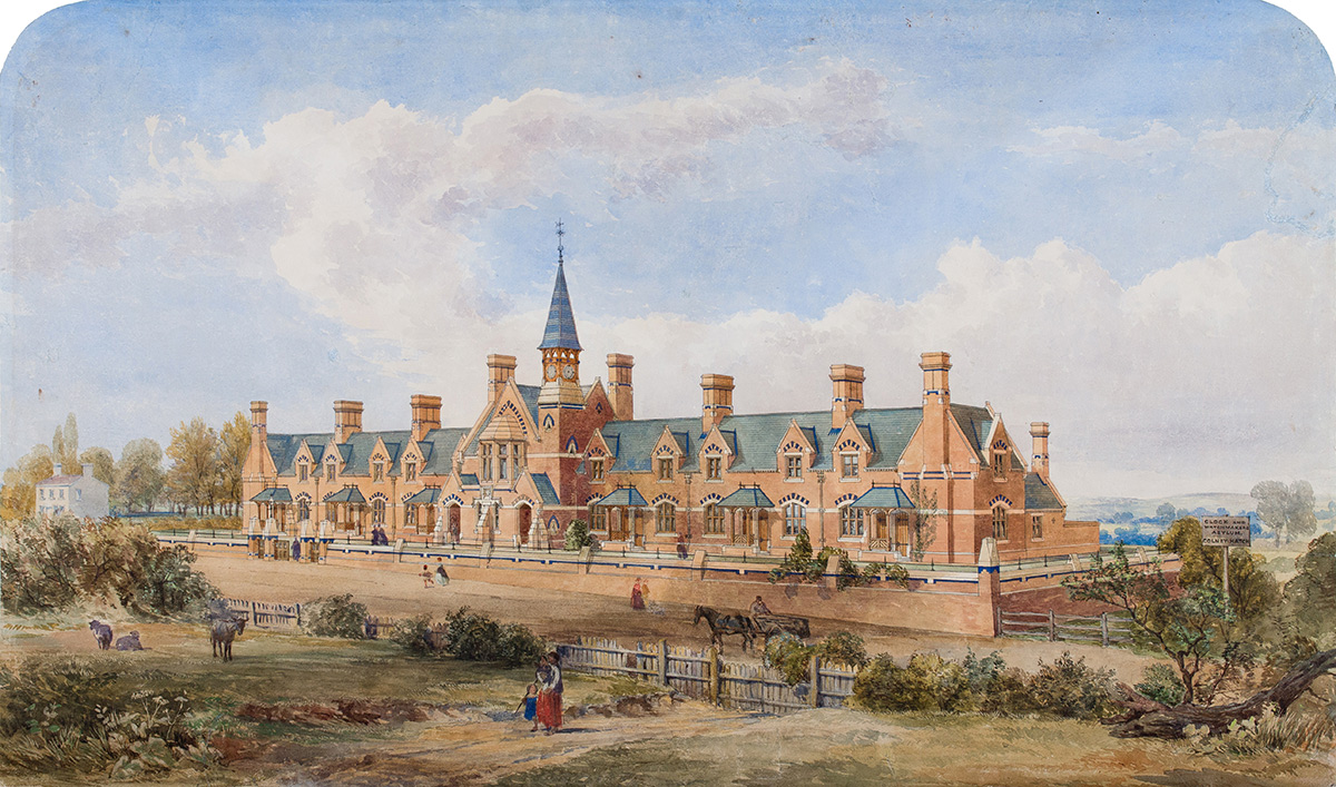 Ink and watercolour architectural elevation. The Asylum, later Friern Hospital, was opened in 1857. 22.5x37.5 inches (arched). Offered for sale by Abbott & Holder in June 2019.